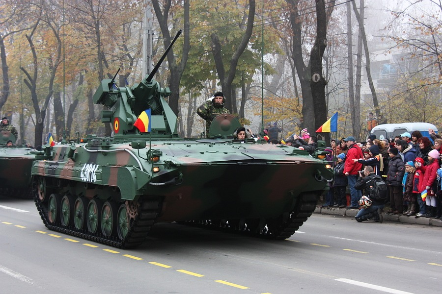 A MLI-84 IFV on the Romanian National Day parade on December 1st, at the Triumph Arch in Bucharest.